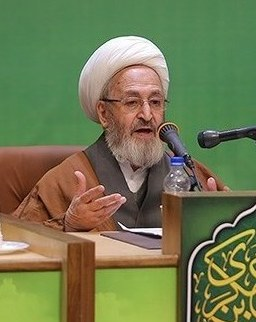 Grand Ayatollah Jafar Sobhani in The annual meeting of the Society of Seminary Teachers of Qom